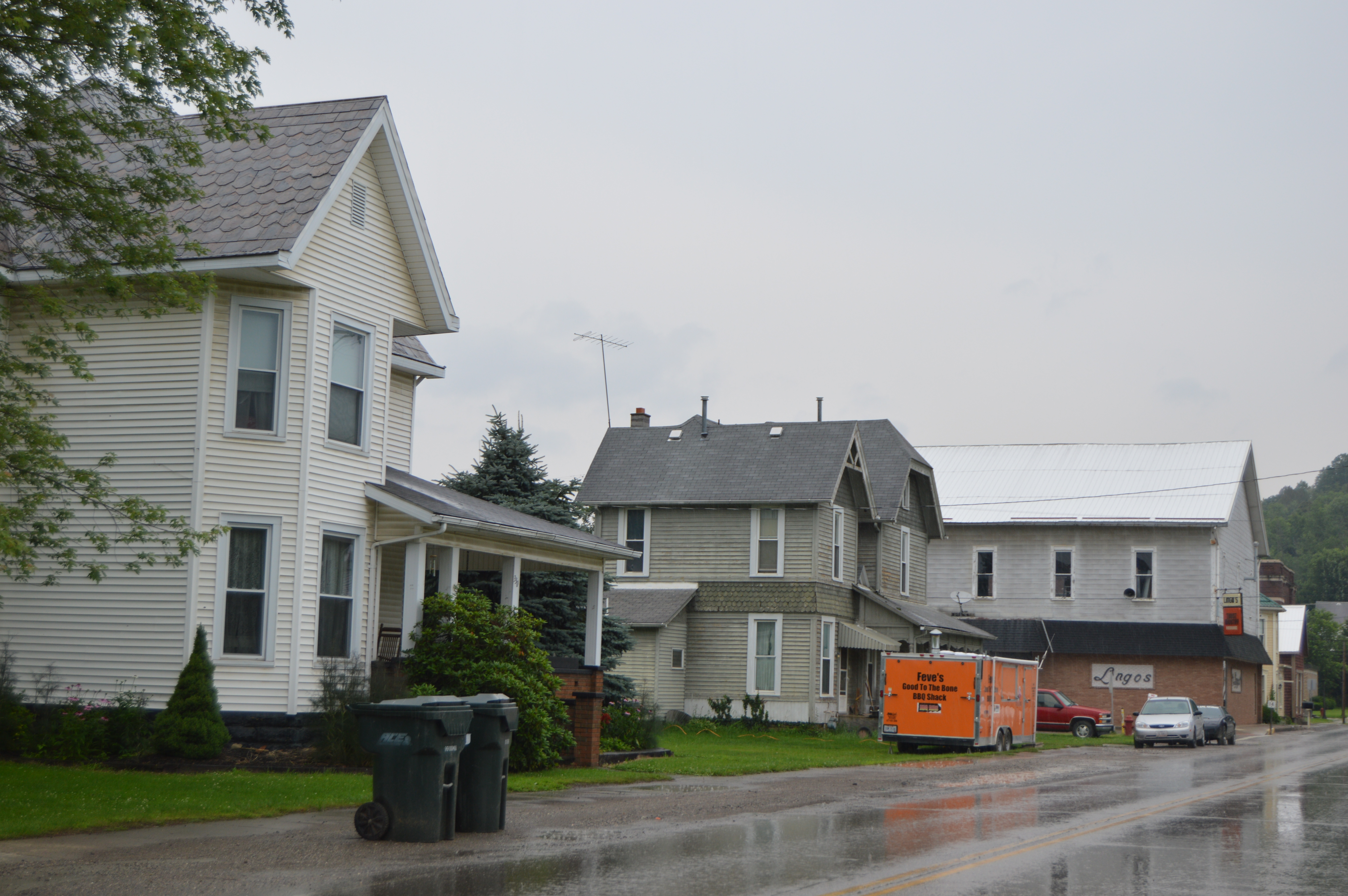 Houses on the western side of S. South Street (State Route 265) south of Fair Street in Quaker City, Ohio, United States.